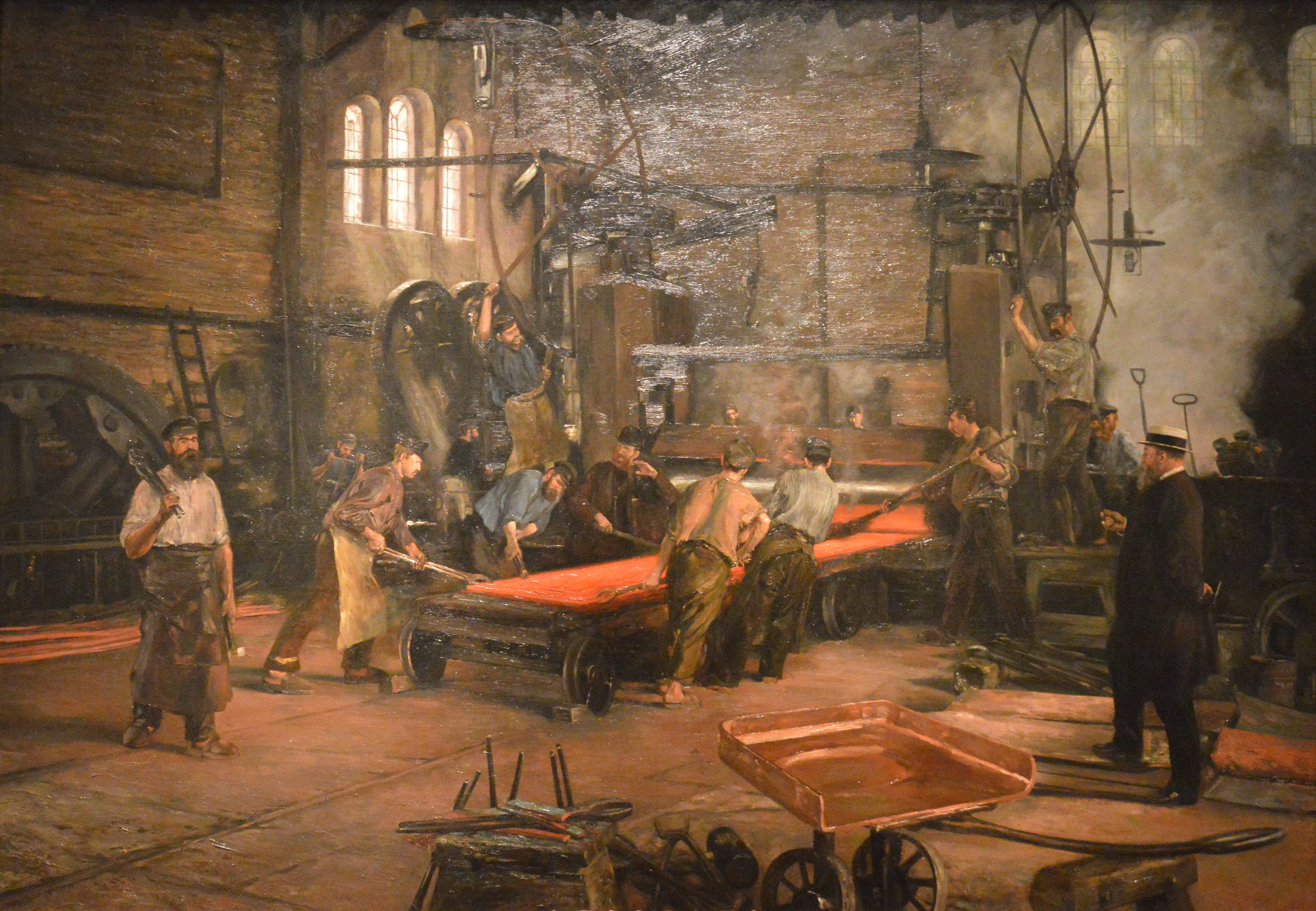 An 1891 painting of the Heckmann coppermill by unknown artist, at the Deutsches Historisches Museum, Berlin. In 1837, Carl Justus Heckmann (1786-1878) founded a copper mill at Schlesisches Tor, Berlin. Between 1840-1850, it was a leading company with numerous branches in the German Reich. In 1868, Heckmann retired from business and his sons continued the company. The painting was a gift to the foreman, C.W. Meyer, who can be seen on the right edge.